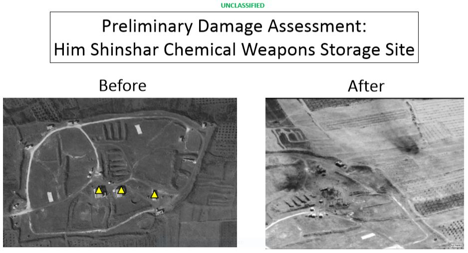 News Briefing Slide of 2018 bombing of Damascus and Homs released by the US Department of Defense. Preliminary Dammage Assessment: Him Shinshar Chemical Weapons Storage Site (unclassified)